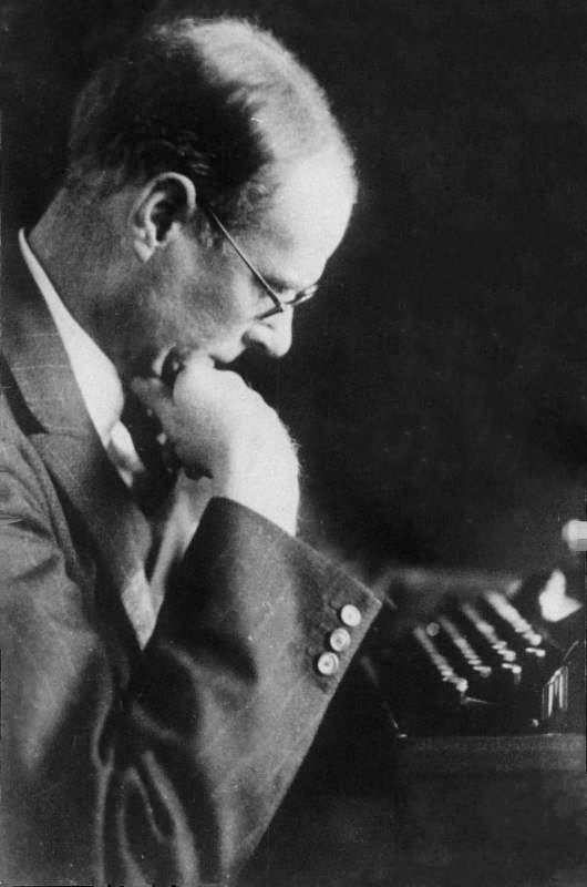 Portrait American author Sinclair Lewis, Nobel Prize in Literature 1931